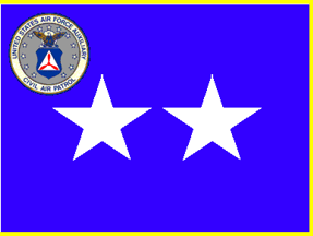 Flag of CAP's National Commander. Website's disclaimer page states that the material is for non-commercial and non-political purposes only, quote author, website, and other copyright rules. FOTW Flags Of The World website at